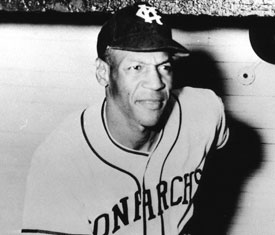 Buck O'Neil in a Kansas City Monarchs Uniform.